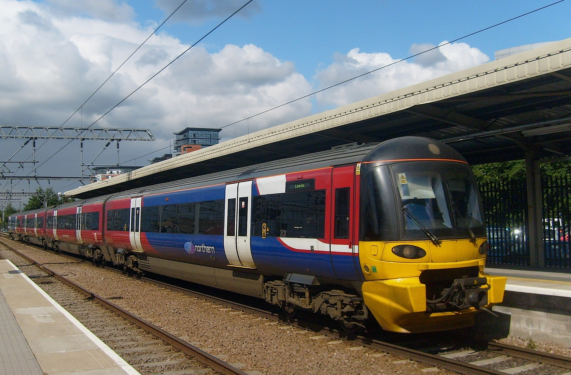 Northern Rail/WYPTE Metro Siemens Class 333 EMU No. 333002 arrives at Leeds, piror to forming a service bound for Ilkley.